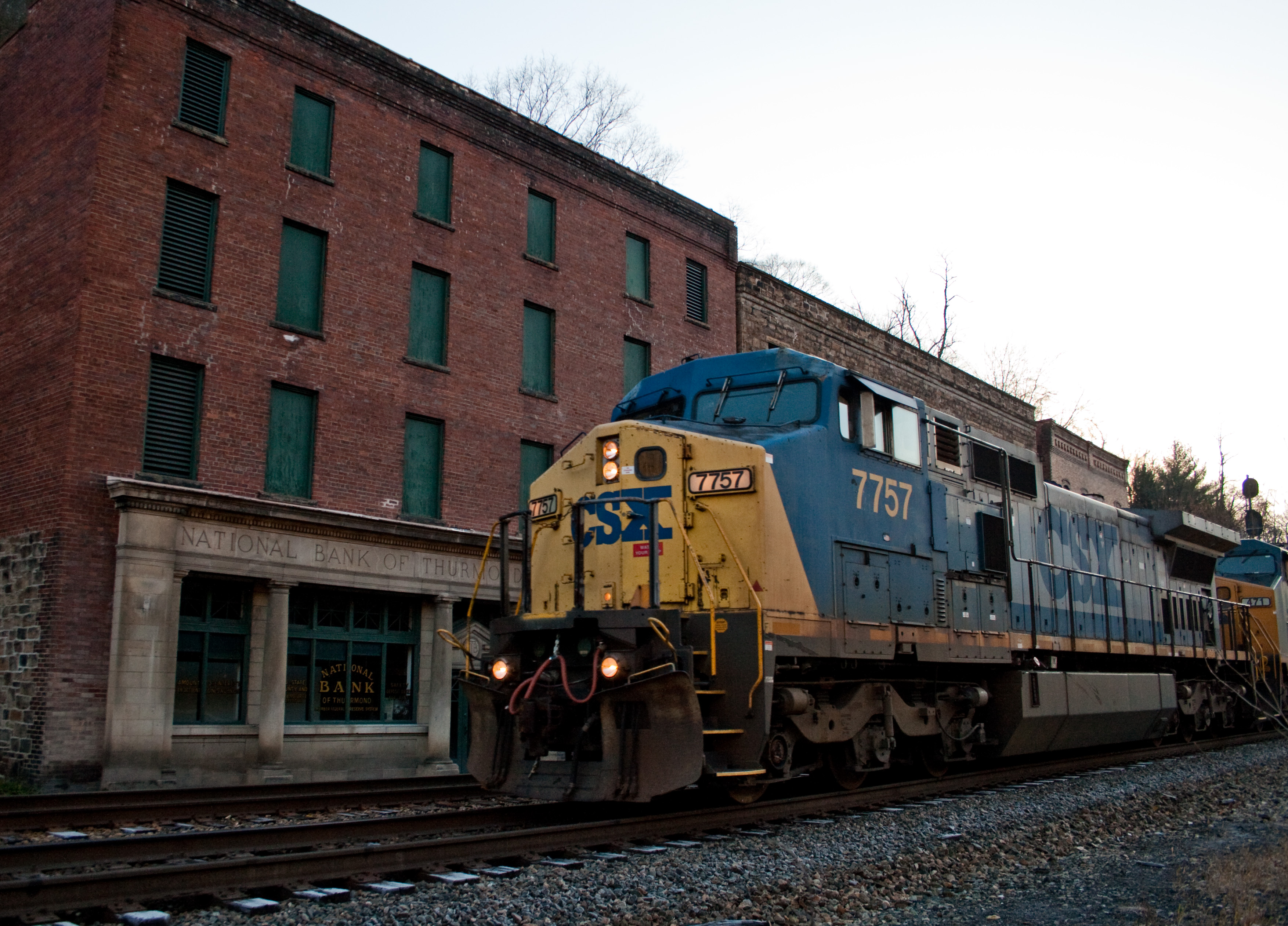 CSX 7757 (a C40-8W) leads a freight past the long defunct National Bank of Thurmond.